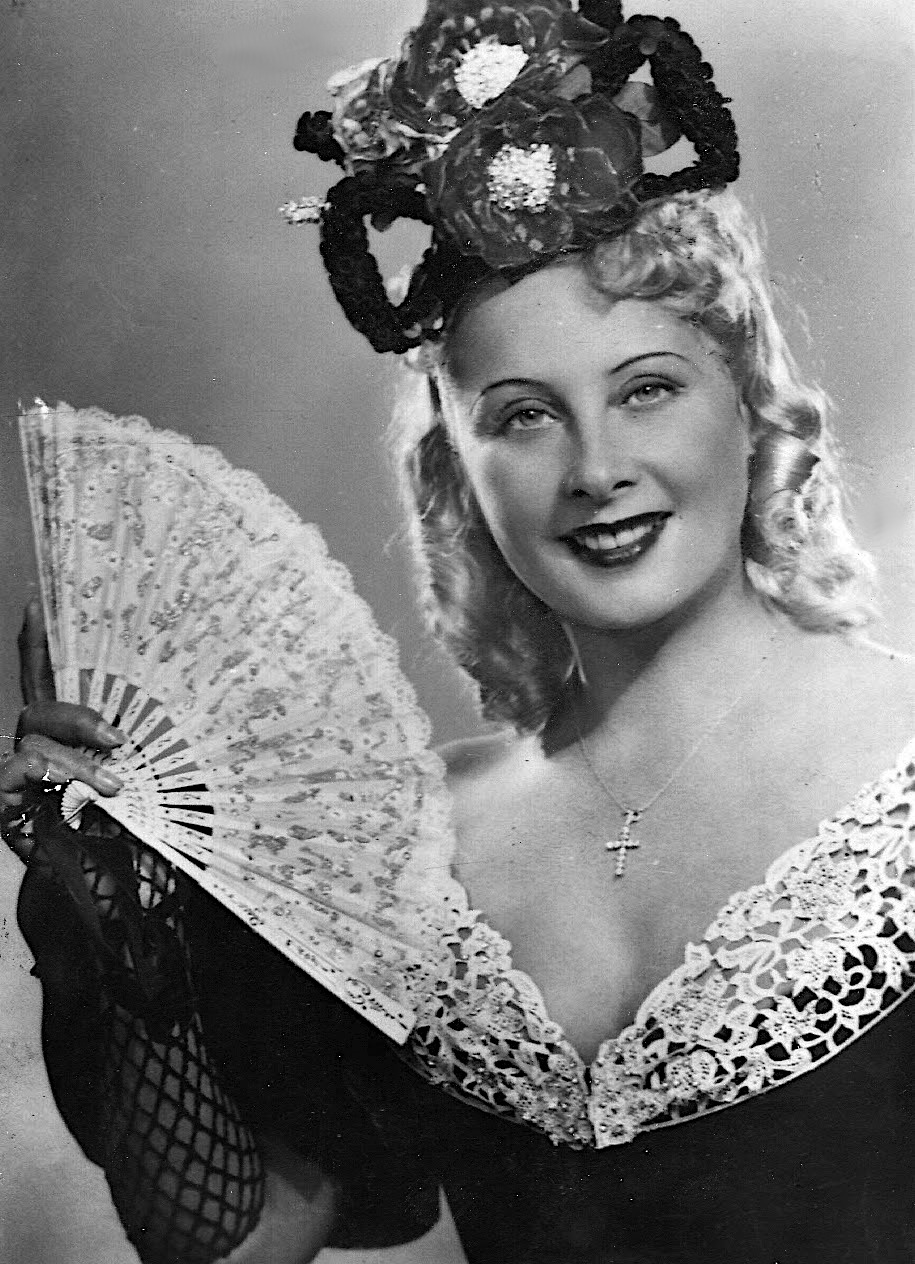 Hanna Honthy